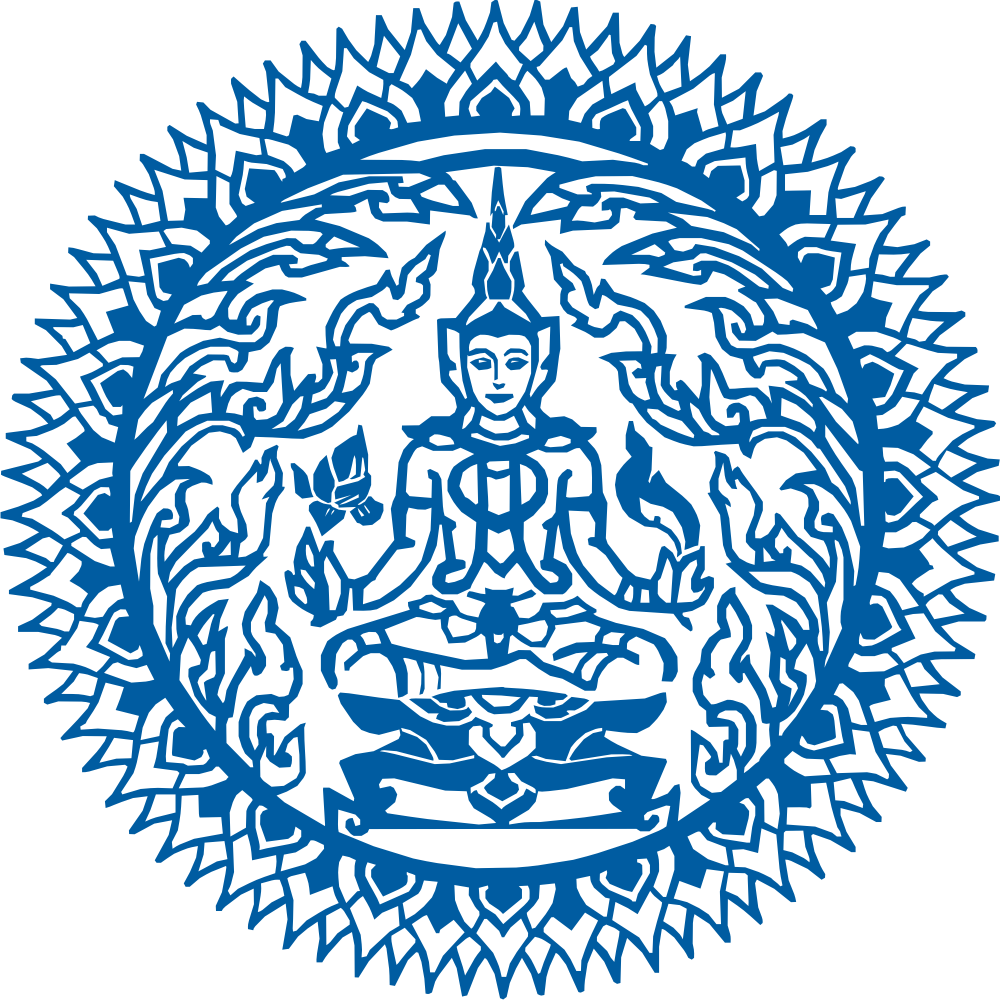 Seal of the Thai Ministry of Foreign Affairs.